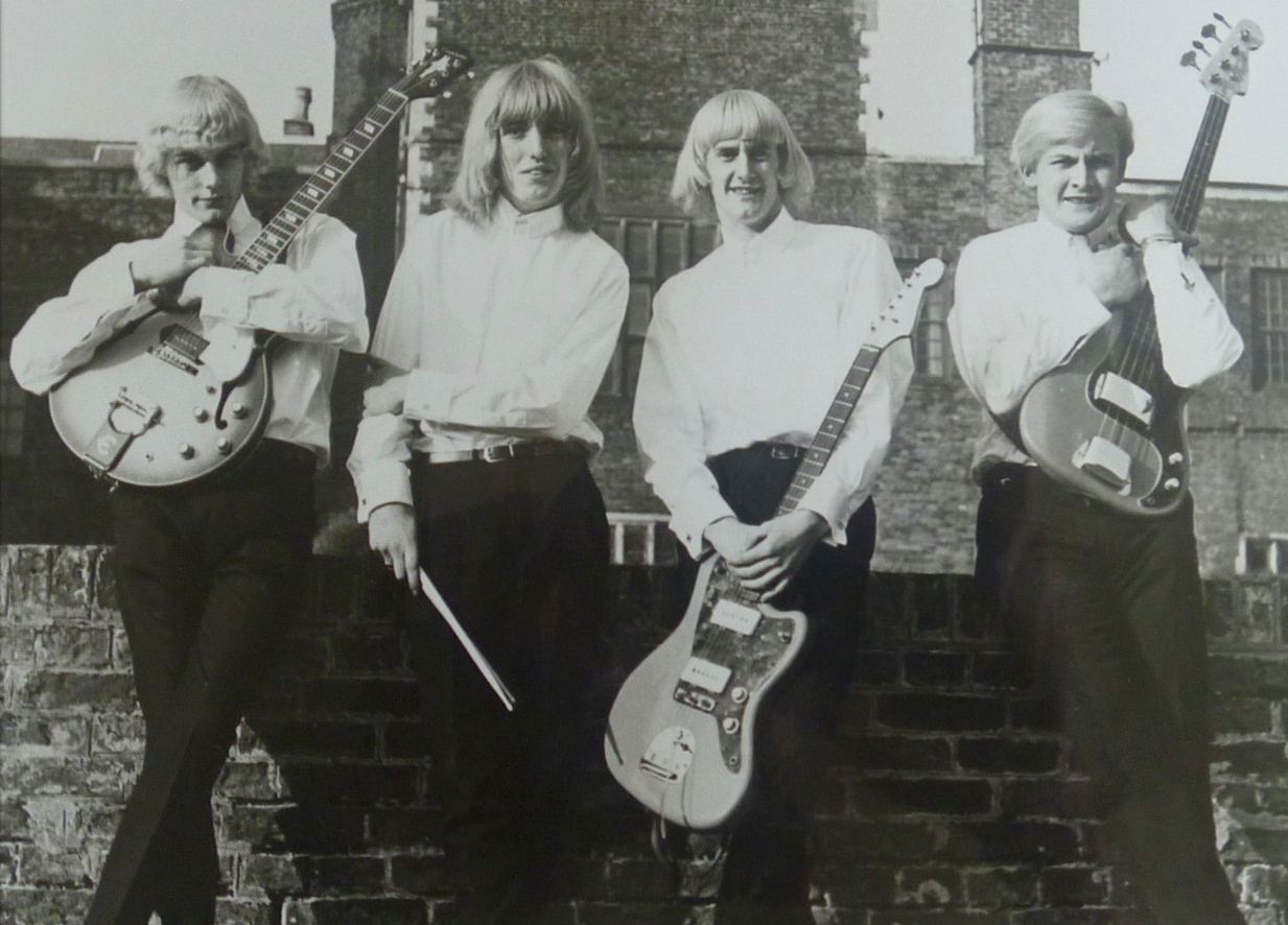 The Hullaballoos at Burton Constable Hall, Burton Constable, East Riding of Yorkshire, England. L to R: Ricky, Harry, Andy, Geoff. Photo by MTM (Roadie)